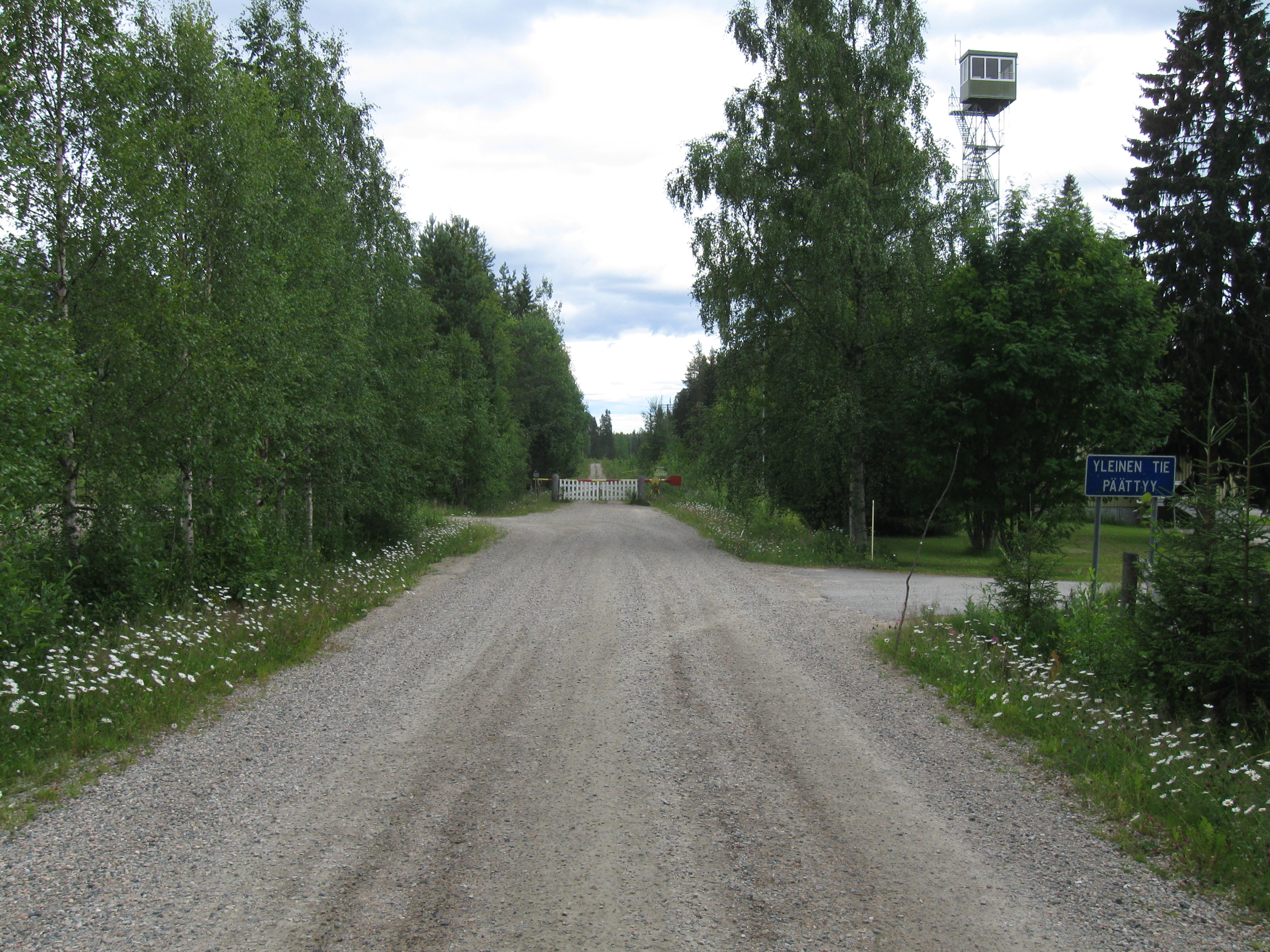 A view towards East at the end of the road to Raate, Suomussalmi, Finland.